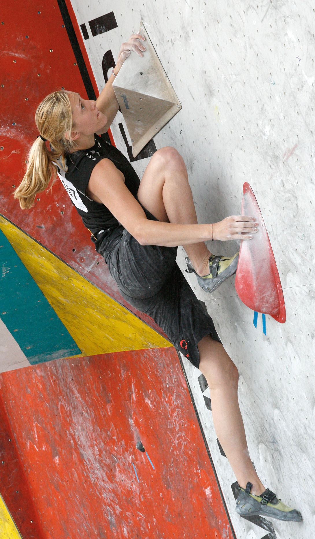 Alex Johnson during the semi-finals at the IFSC Boulder Worldcup Vienna 2010.